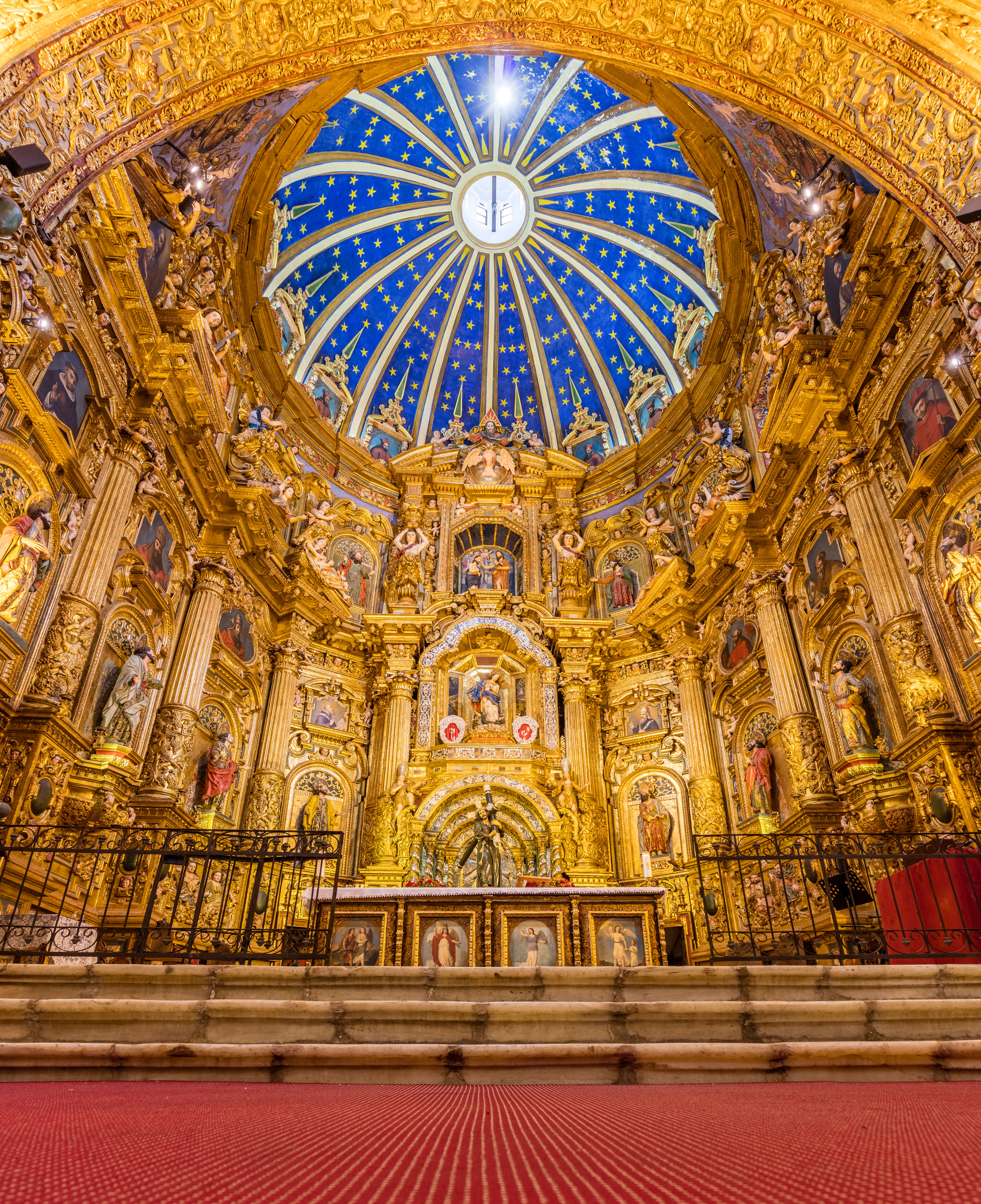 High altar and dome of the Roman Catholic church and Monastery of St. Francis, Quito, Ecuador. The monastery complex, the largest architectural ensemble among the historical structures of colonial Latin America, was completed in the 17th century. Construction took 150 years, and the building exhibits a mixture of architectural styles.